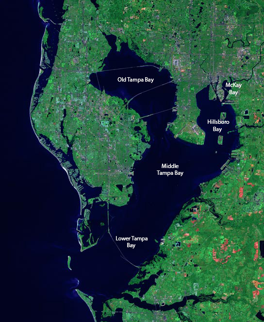 Satellite view of Tampa Bay. The raw image was obtained from NASA and/or the US Geological Survey. Post-processing and production by .